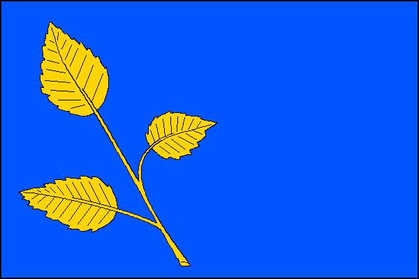 Municipal flag of Habrovany village, Vyškov District, Czech Republic.